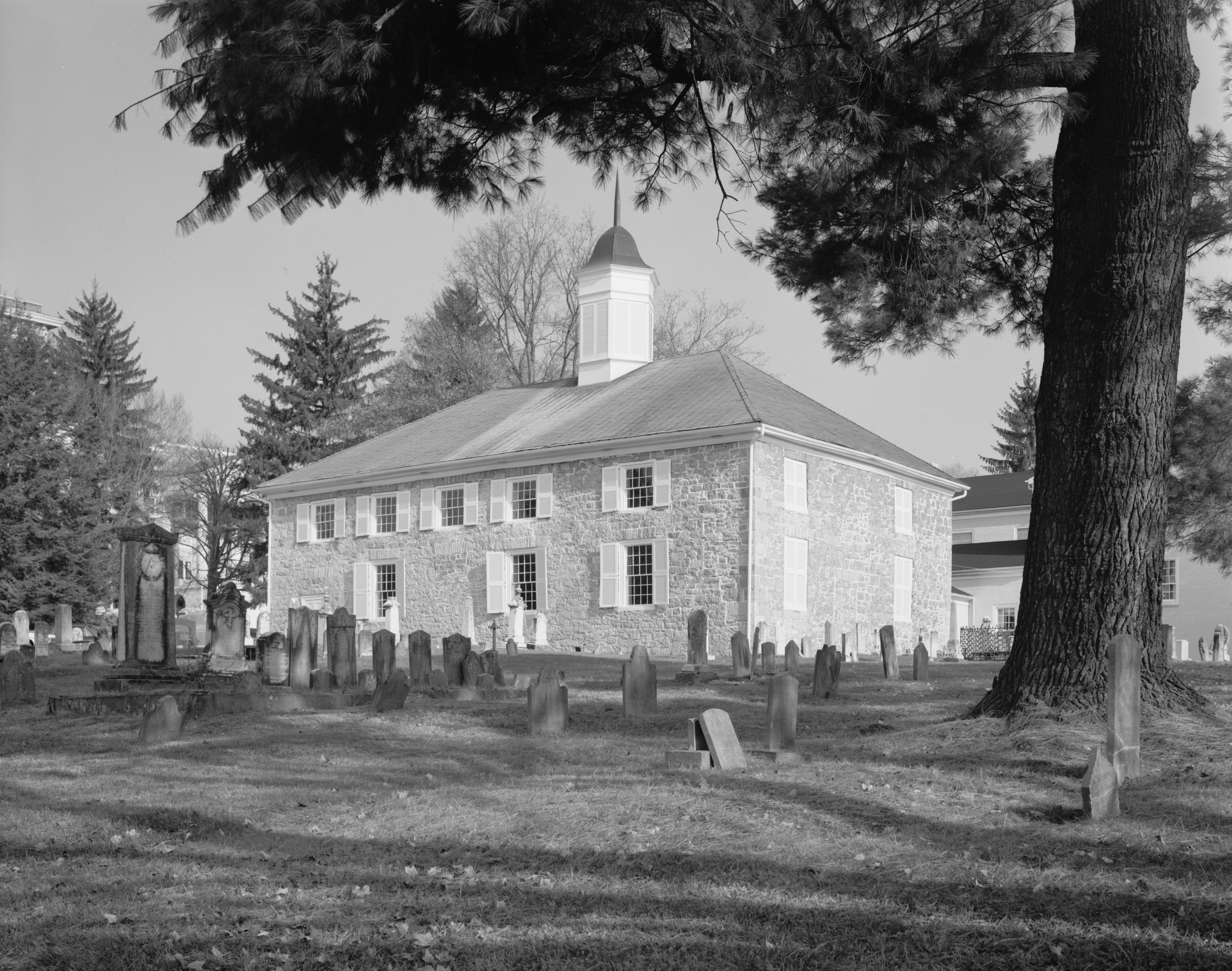 Rear of the Old Stone Church, located at the intersection of Church and Foster Streets in Lewisburg, West Virginia, United States. Built in 1796, it is listed on the National Register of Historic Places.